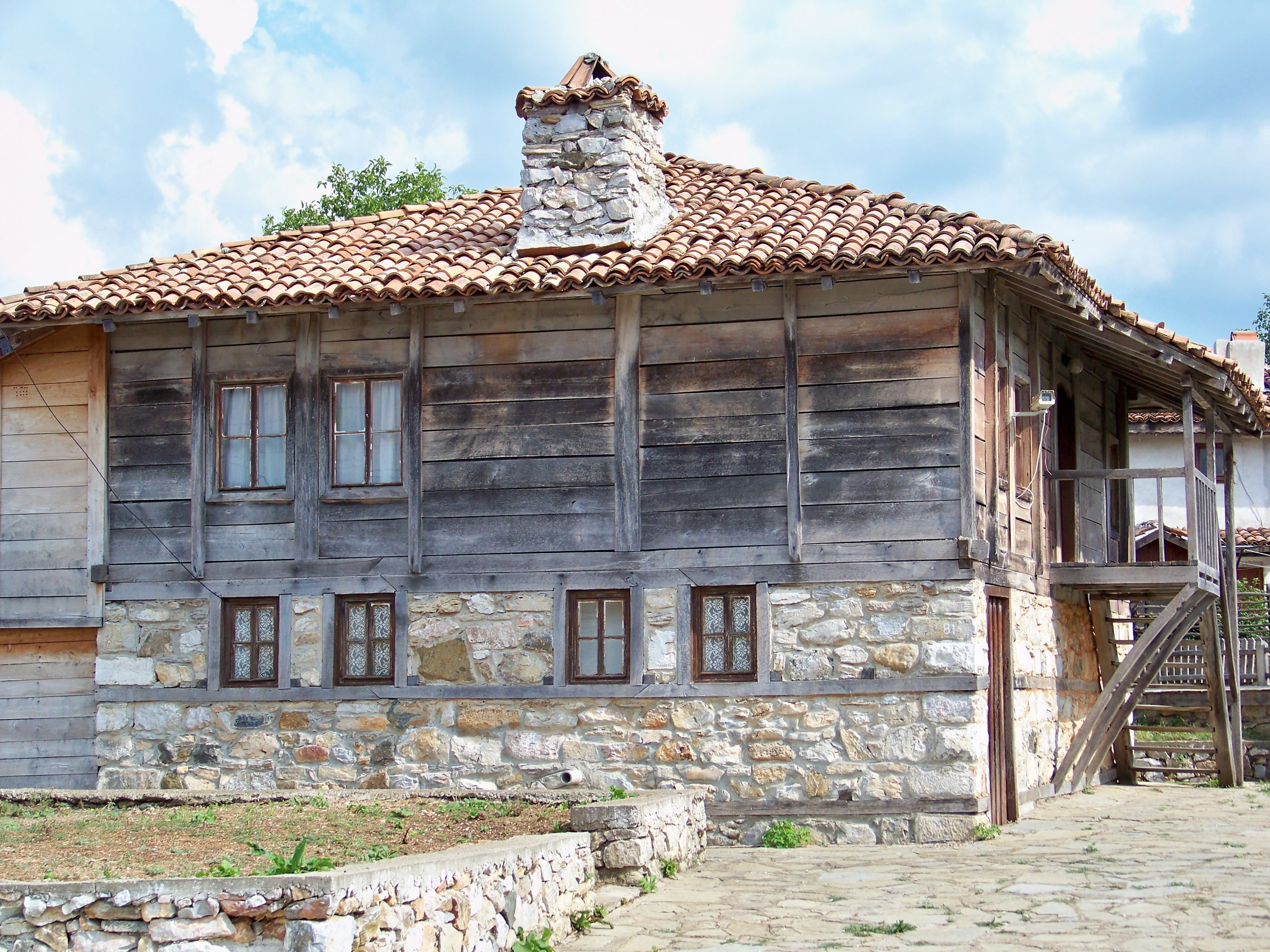 Brashlyan is a village in southeastern Bulgaria, part of Malko Tarnovo municipality